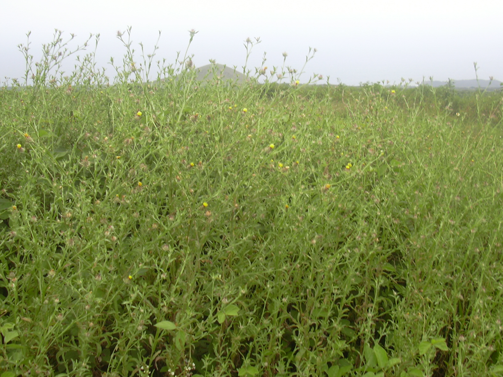 Centaurea melitensis (habit). Location: Maui, Auwahi